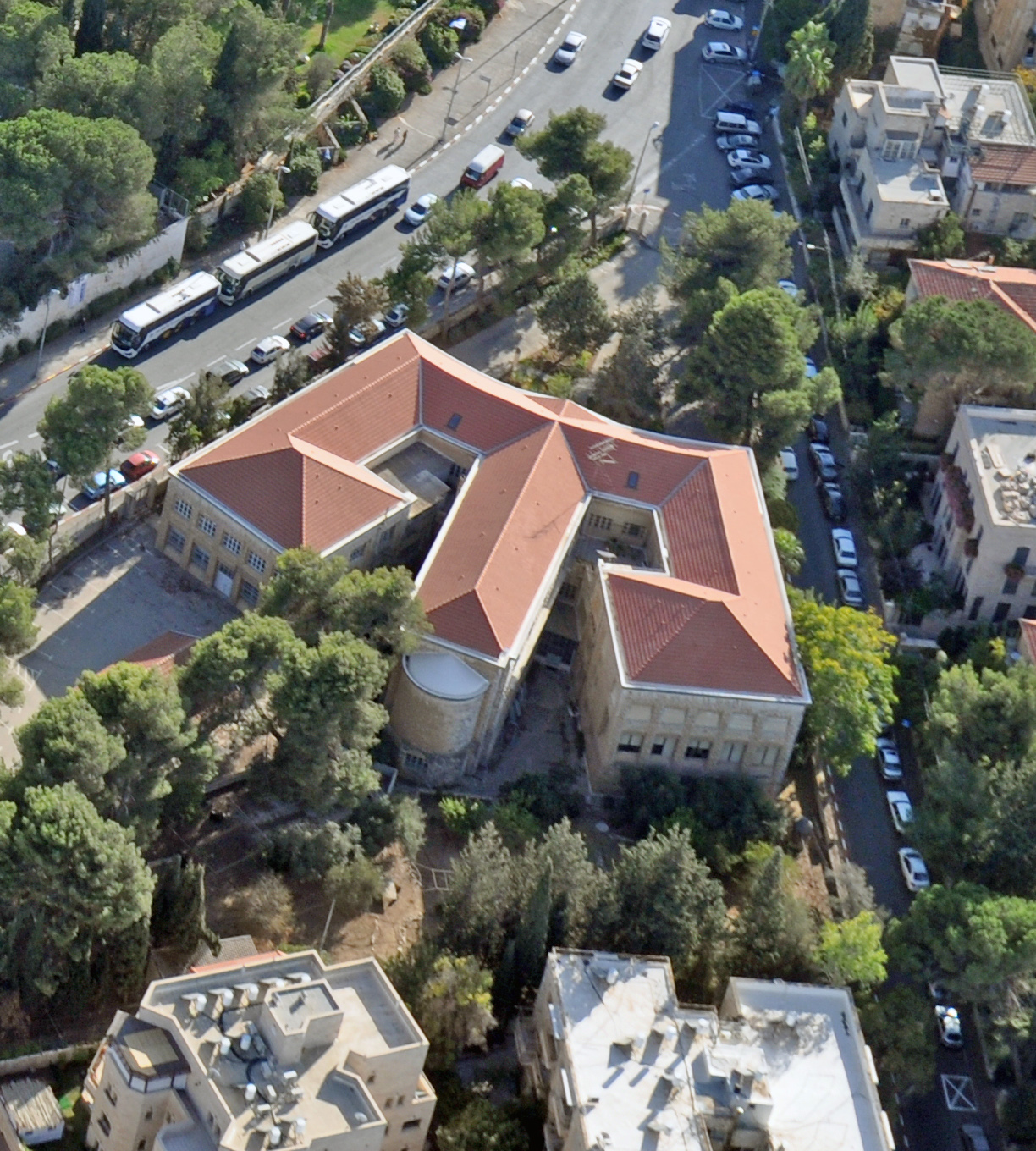 Collegio S. Antonio, Talbiya, Jerusalem